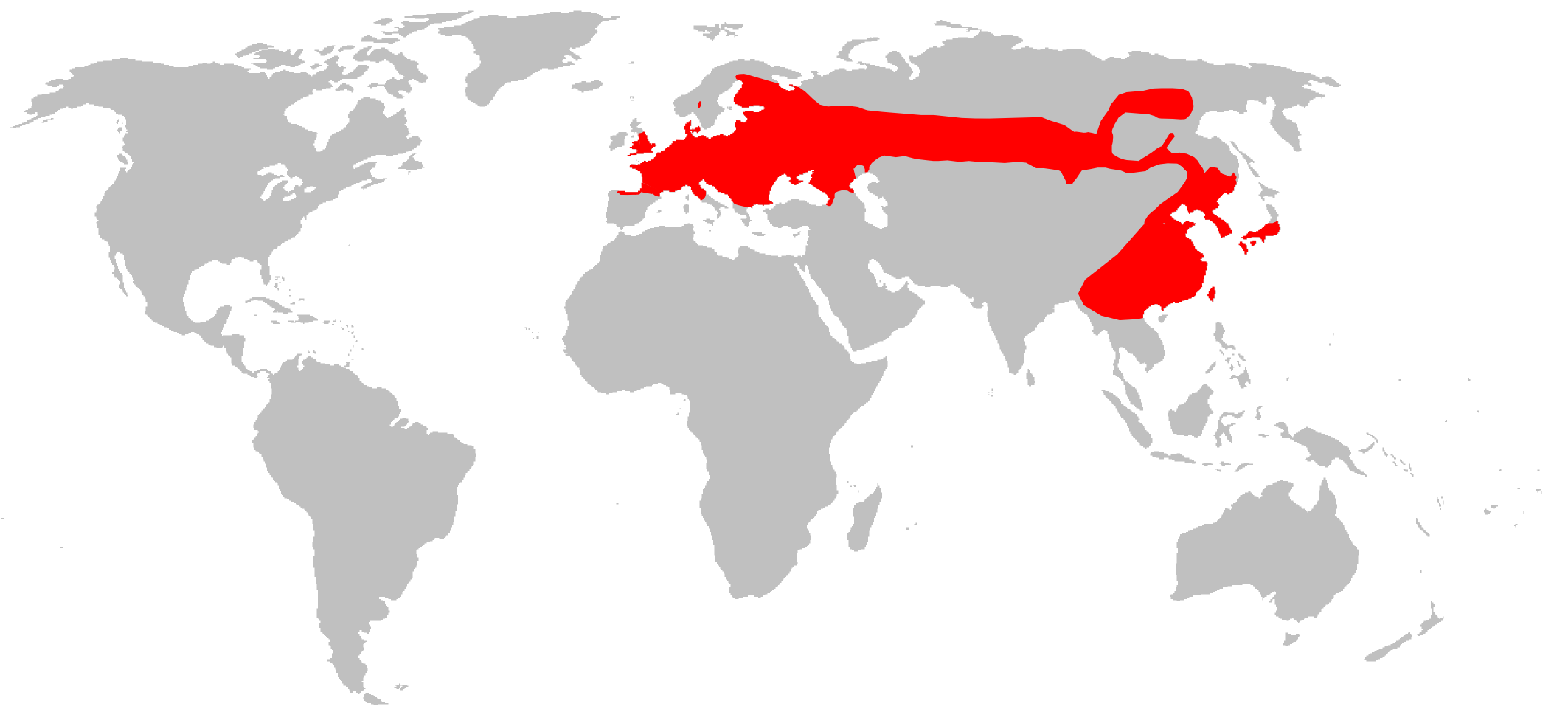 Distribution range of Micromys minutus